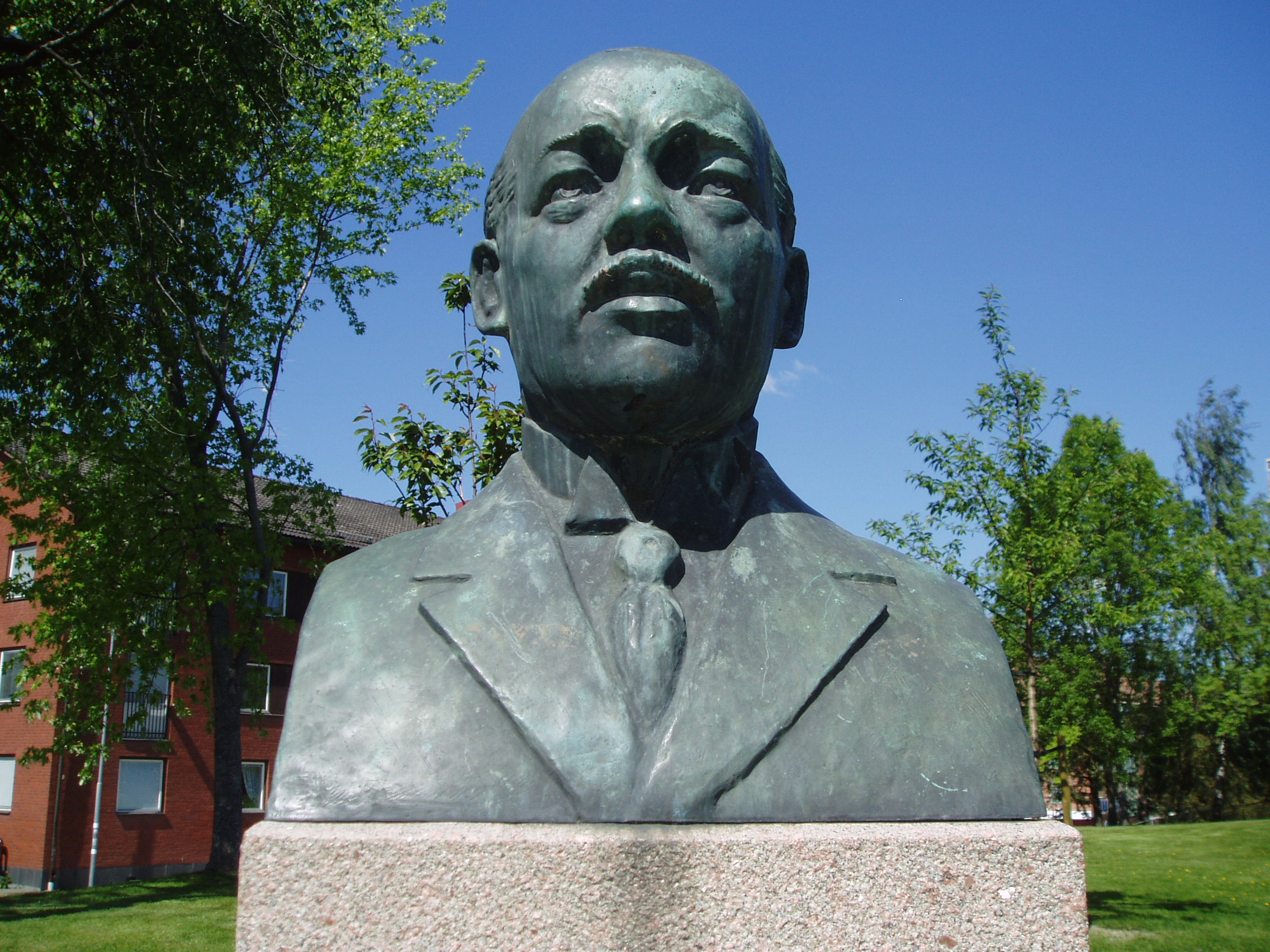 Bust, Gustav Robert Grönkvist, swedish entrepreneur This reproduction of an architectural work or work of art, is covered under the Swedish law of copyright for literary and artistic works (Law 1960:729, paragraph 24), which states that "Work of art may be depicted if it is permanently placed on or at a public place outdoors. Buildings may be freely depicted." See Commons:Freedom of panorama#Sweden for more information.